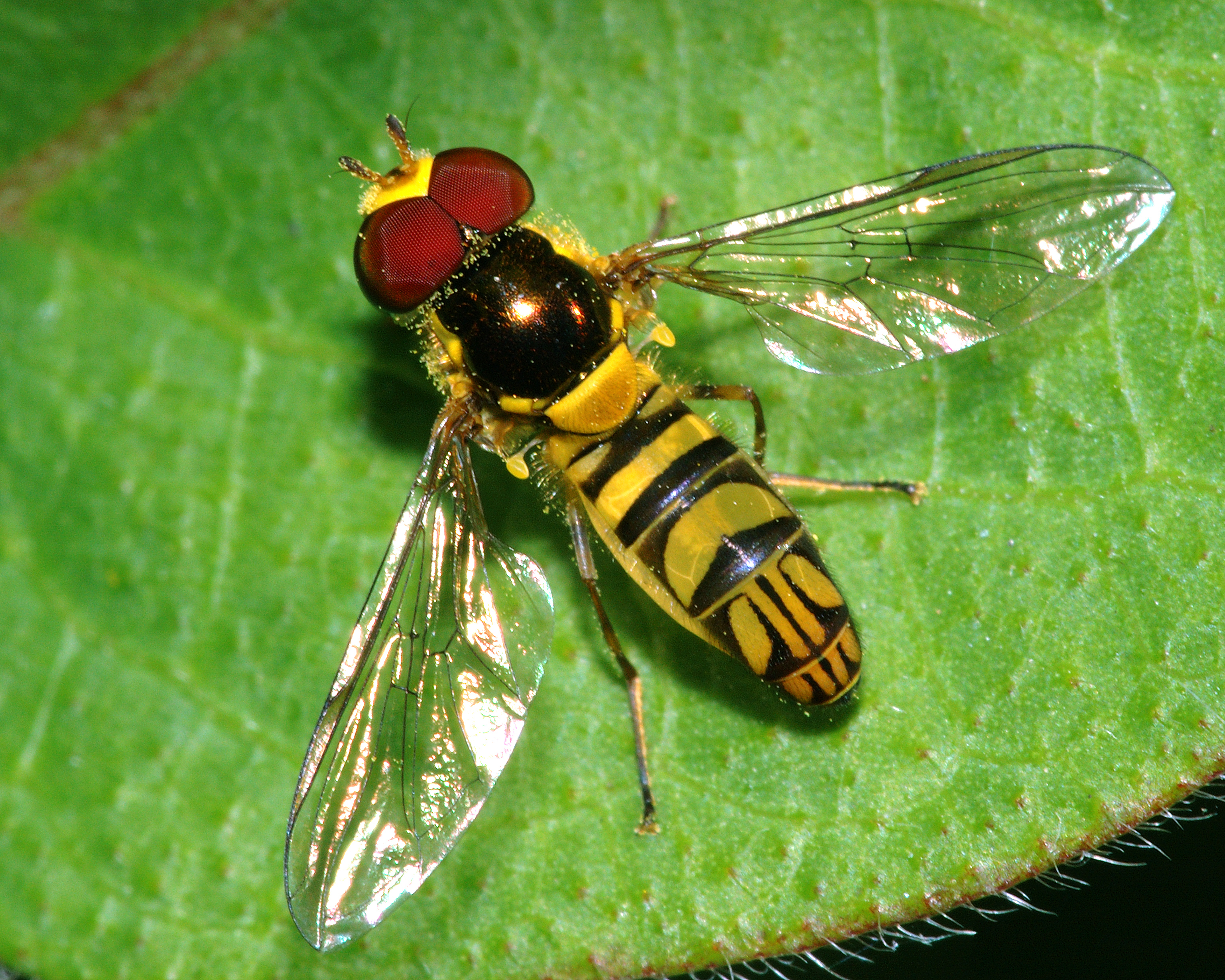 Allograpta obliqua (Say). Image taken in Maryland, United States.